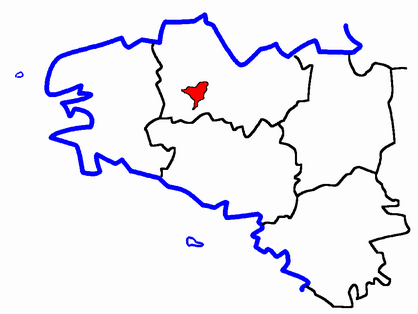 Description: Map for localisazion of cantons of Bretagne region in France Source: made by Hervé Tigier in april 2005 from another large map (published in 1990)